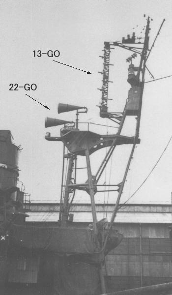 Forword mast of Japanese Destroyer HARUTSUKI (AKIZUKI-class) at Maizuru Naval Arsenal, with 22-GO and 13-GO rader antena on its mast.